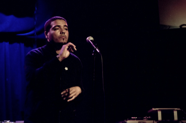 Rapper Onry Ozzborn performing live in 2010.